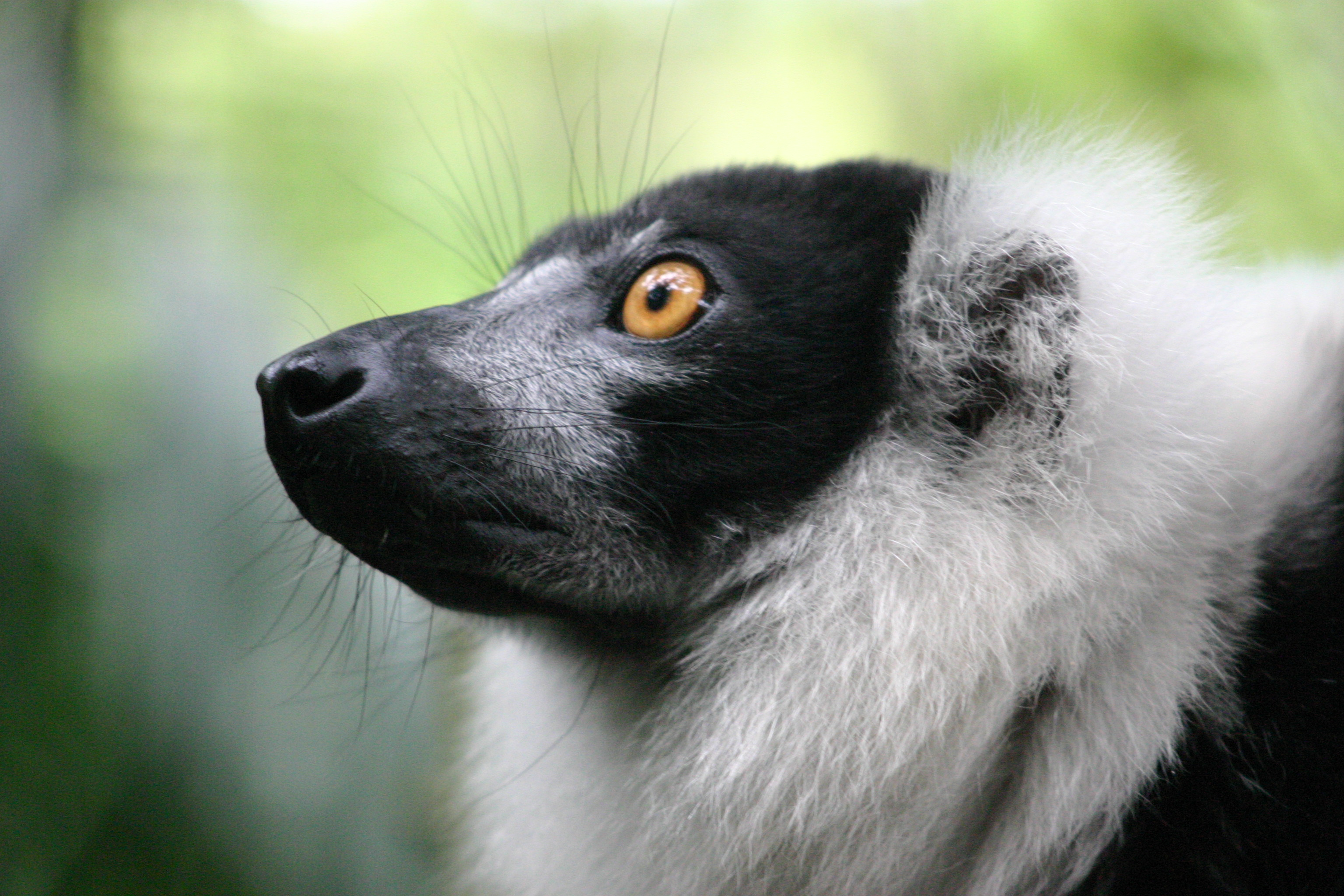 Ruffed Lemur in Singapore Zoo